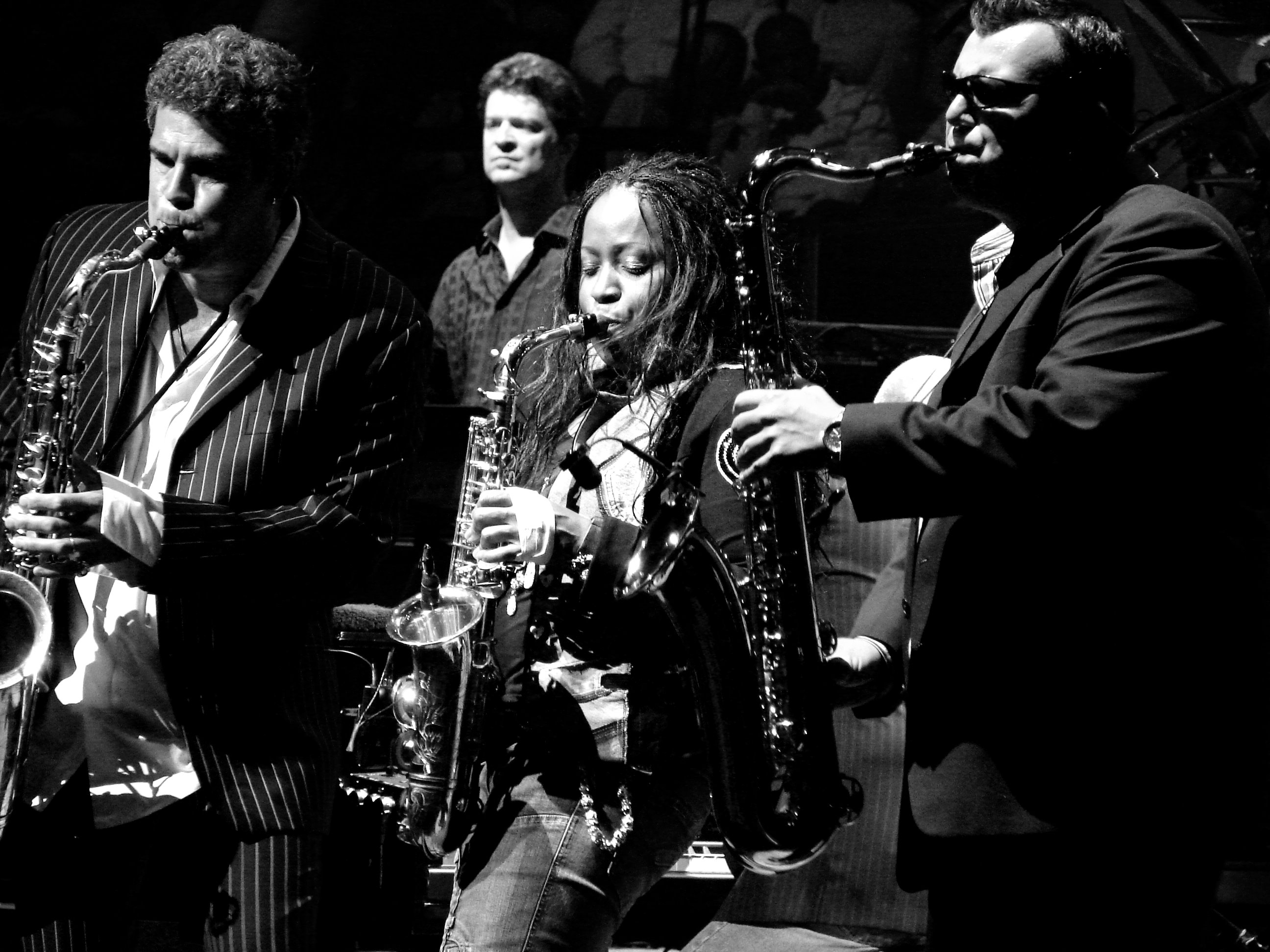 Mark Rivera, David Rosenthal, Crystal Taliefero and Carl Fischer of the Billy Joel Band performing on 4 May 2007 in Auburn Hills, Michigan, The Palace Of Auburn Hills